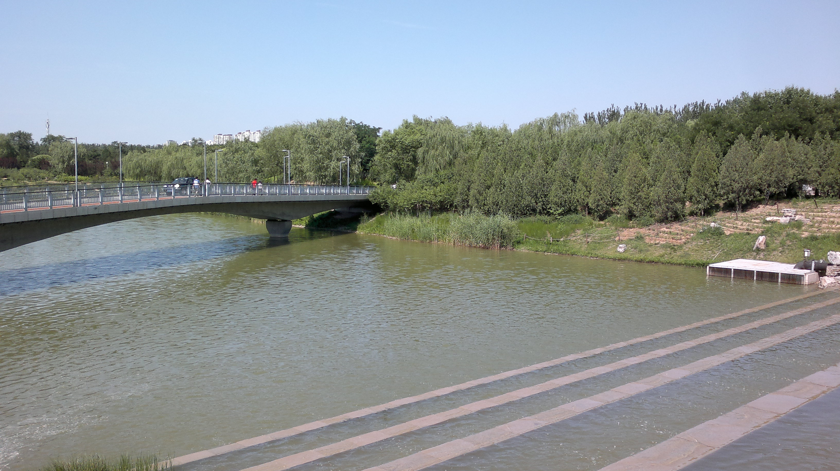 An artificial waterfall in Beijing Olympic National Forest Park